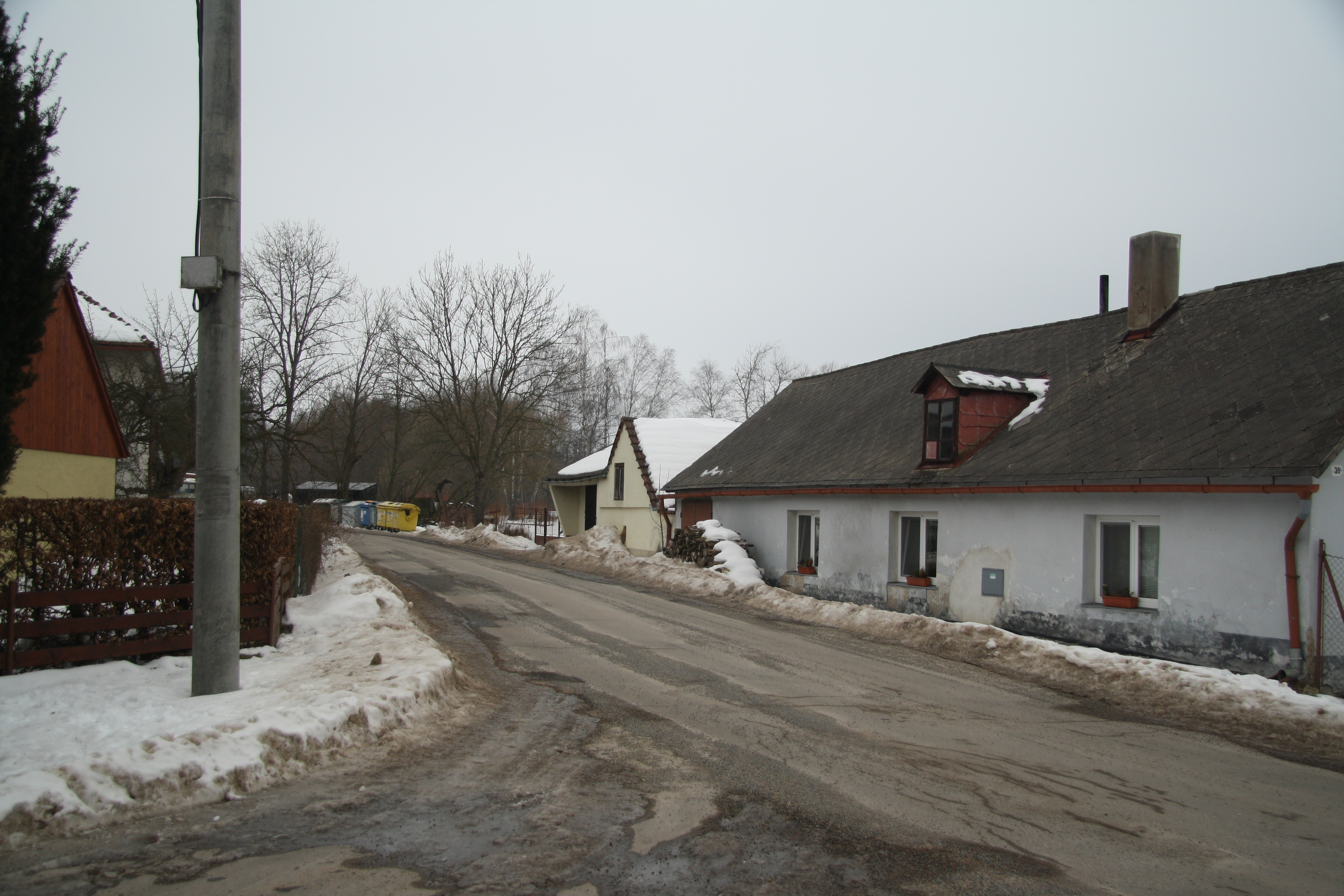 Center of Boršov, Jihlava District.